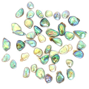 New Zealand natural abalone pearls